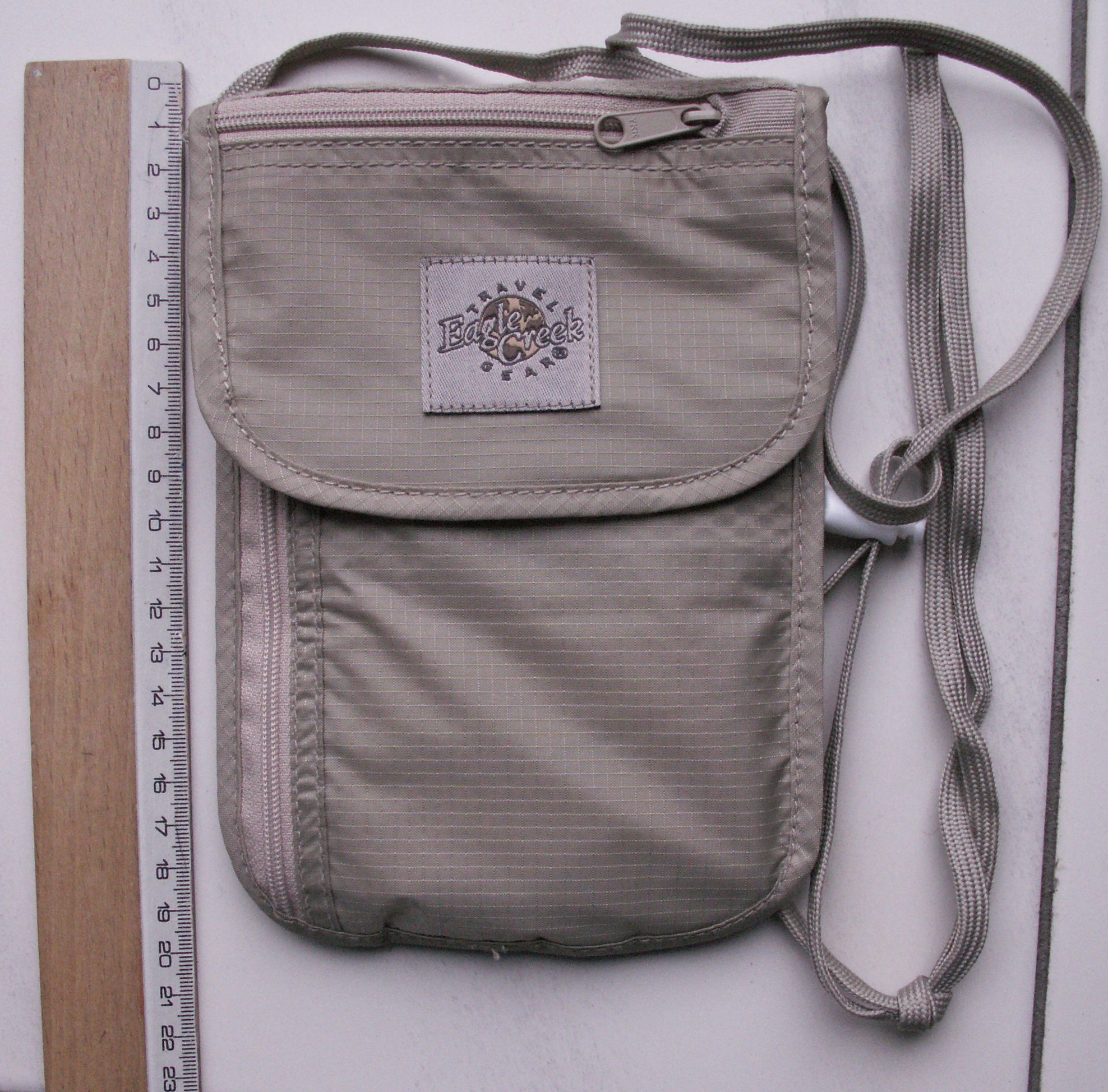 A breast or passage wallet